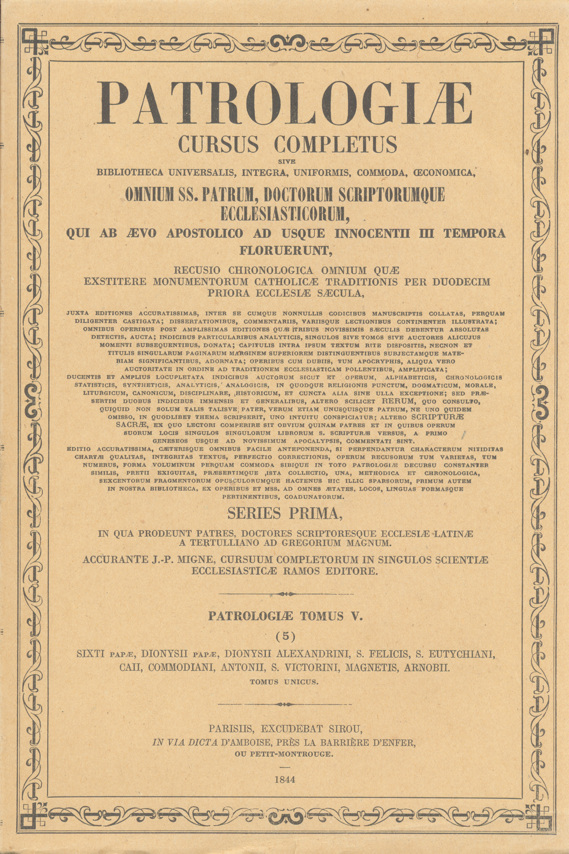 Title page Patrologia Latina vol.5 (1844-1845)